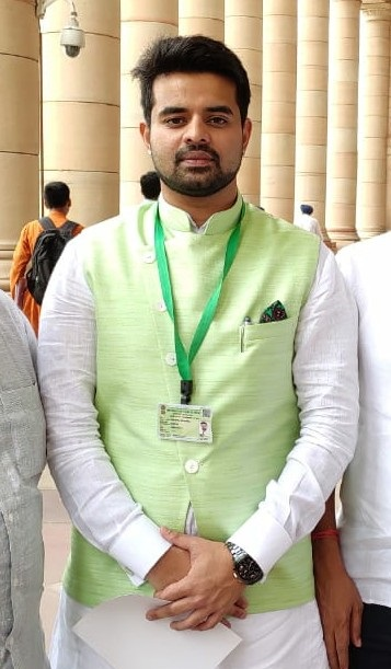 Prajwal Revanna